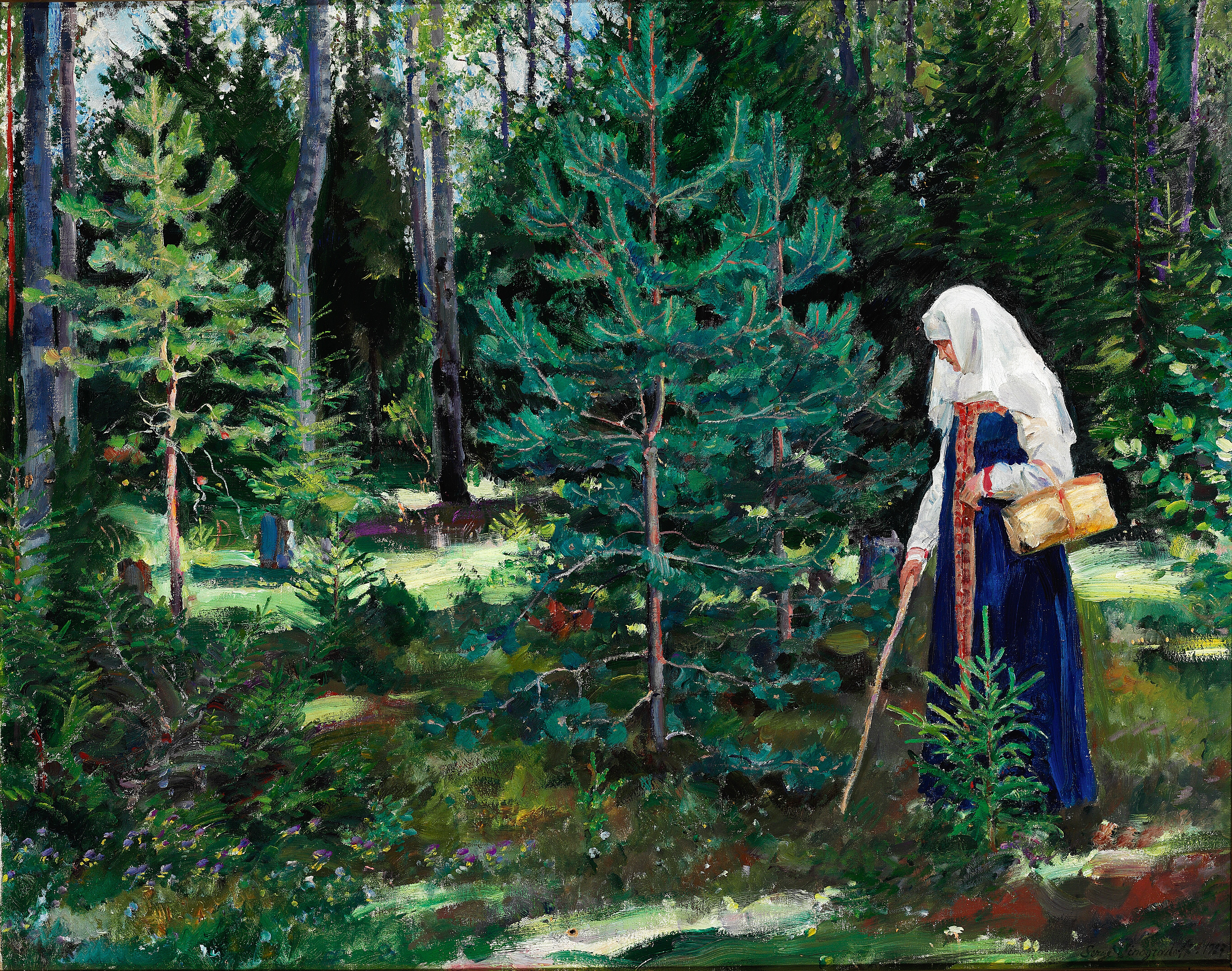 Russian woman in a folk costume looking for mushrooms in a pine forest.